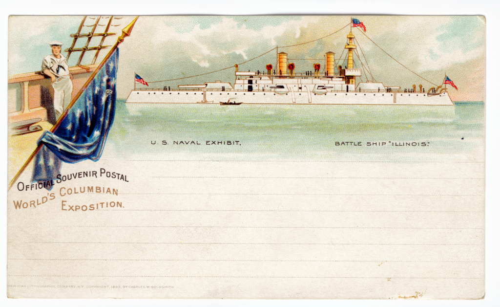 A postcard for the 1893 Columbian Exhibition in Chicago of the "Battleship Illinois" which was actually a full scale mockup of an Indiana-class battleship